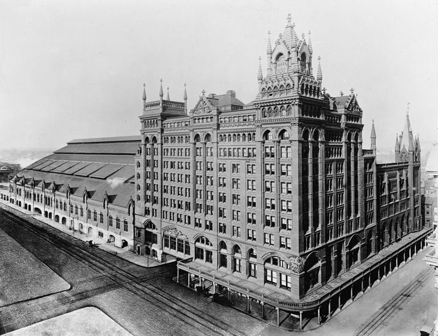 Philadelphia Broad St Terminal, Aerial view of south (long) and east (short) sides. Parts of the roof of city hall is seen at the right edge of the picture.